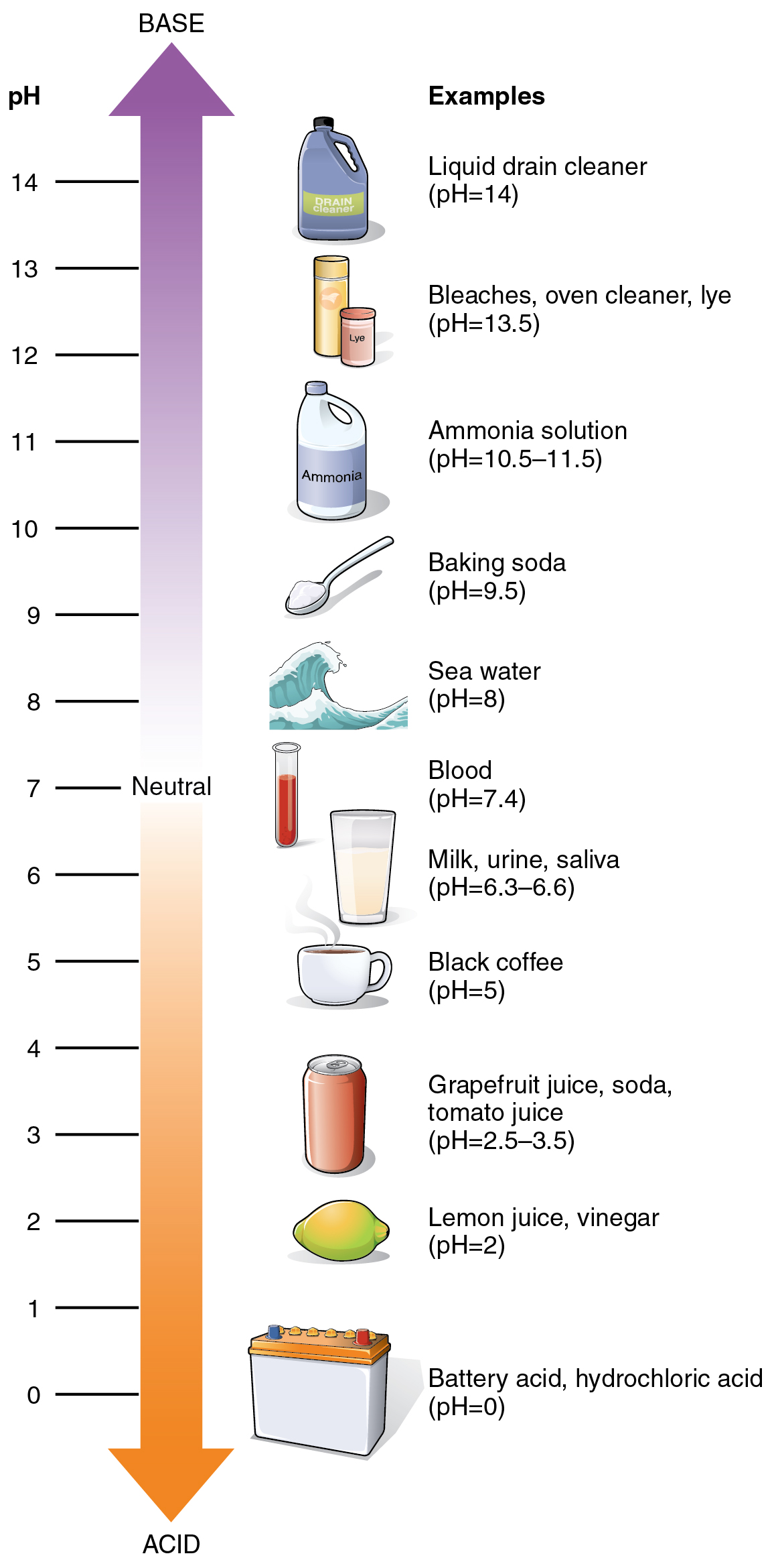 Caption:N/A URL: Illustration from Anatomy & Physiology, Connexions Web site. Jun 19, 2013.